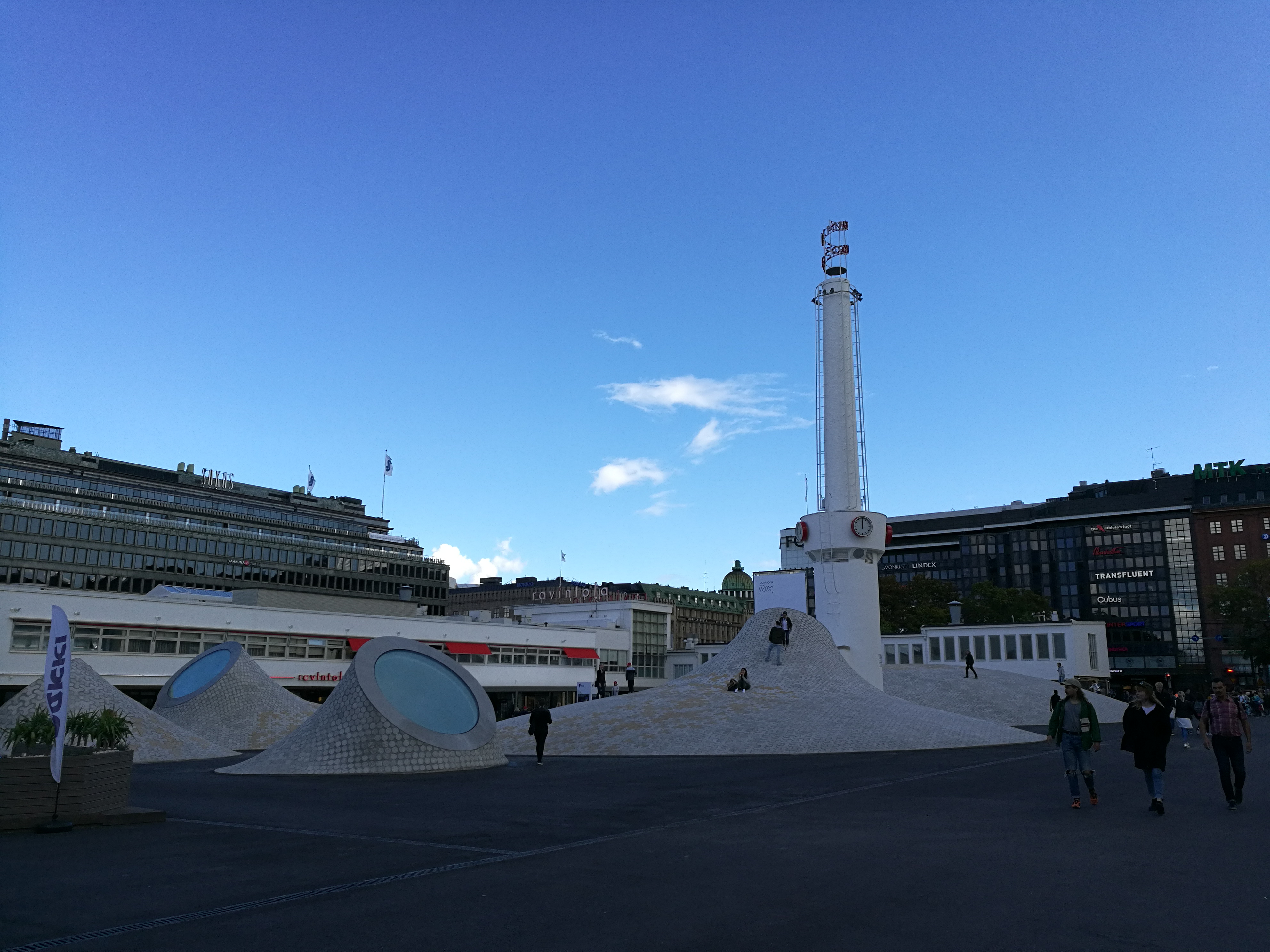 The art museum of Amos Rex.